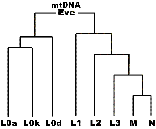 Human haplogroup tree rooted at Mitochondrial Eve.